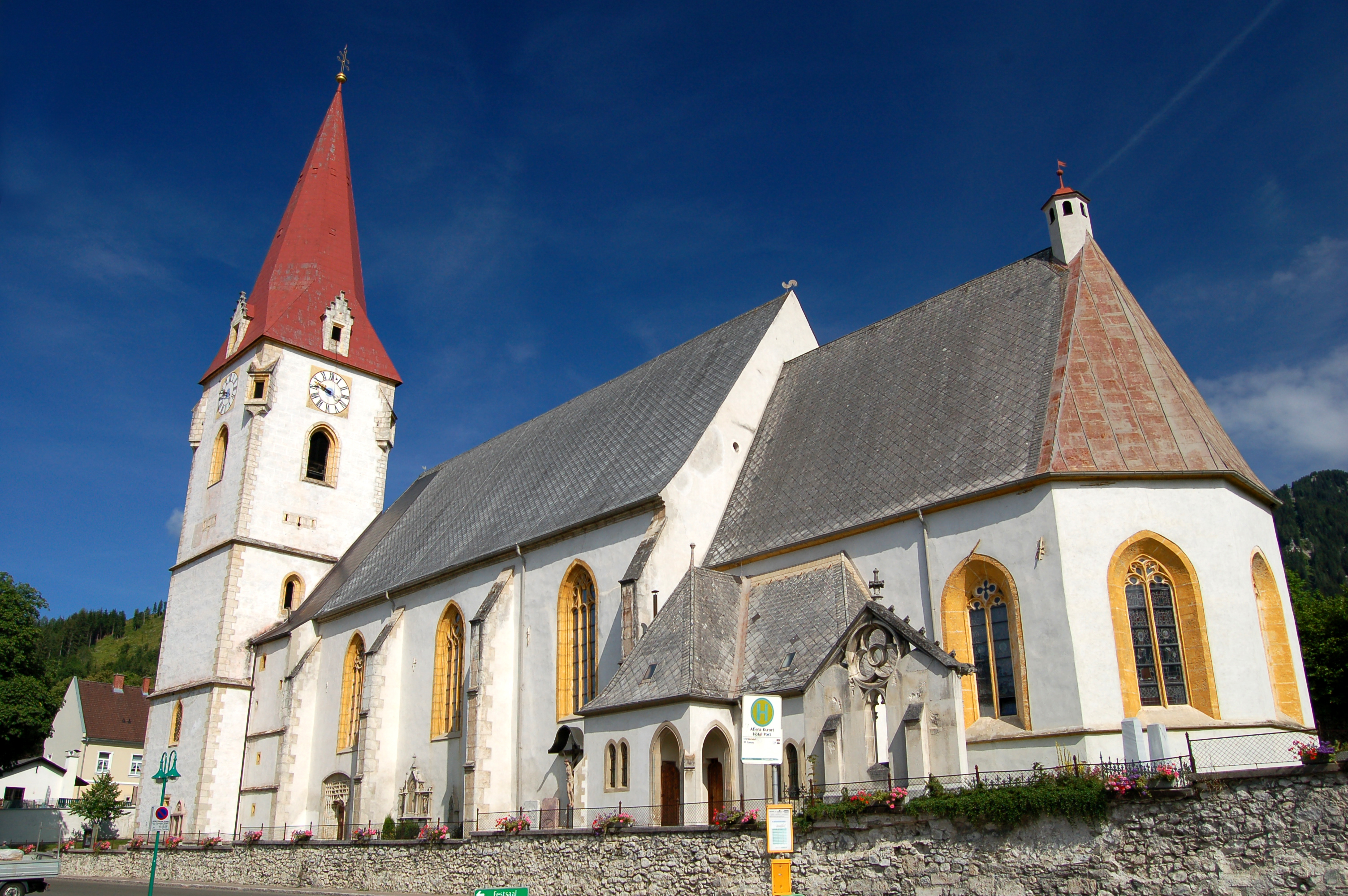 The parish church St. Peter of Aflenz Kurort, Styria, Austria. The tower was build in 1491. The church is Gothic style, interior late Baroque and Rokoko.